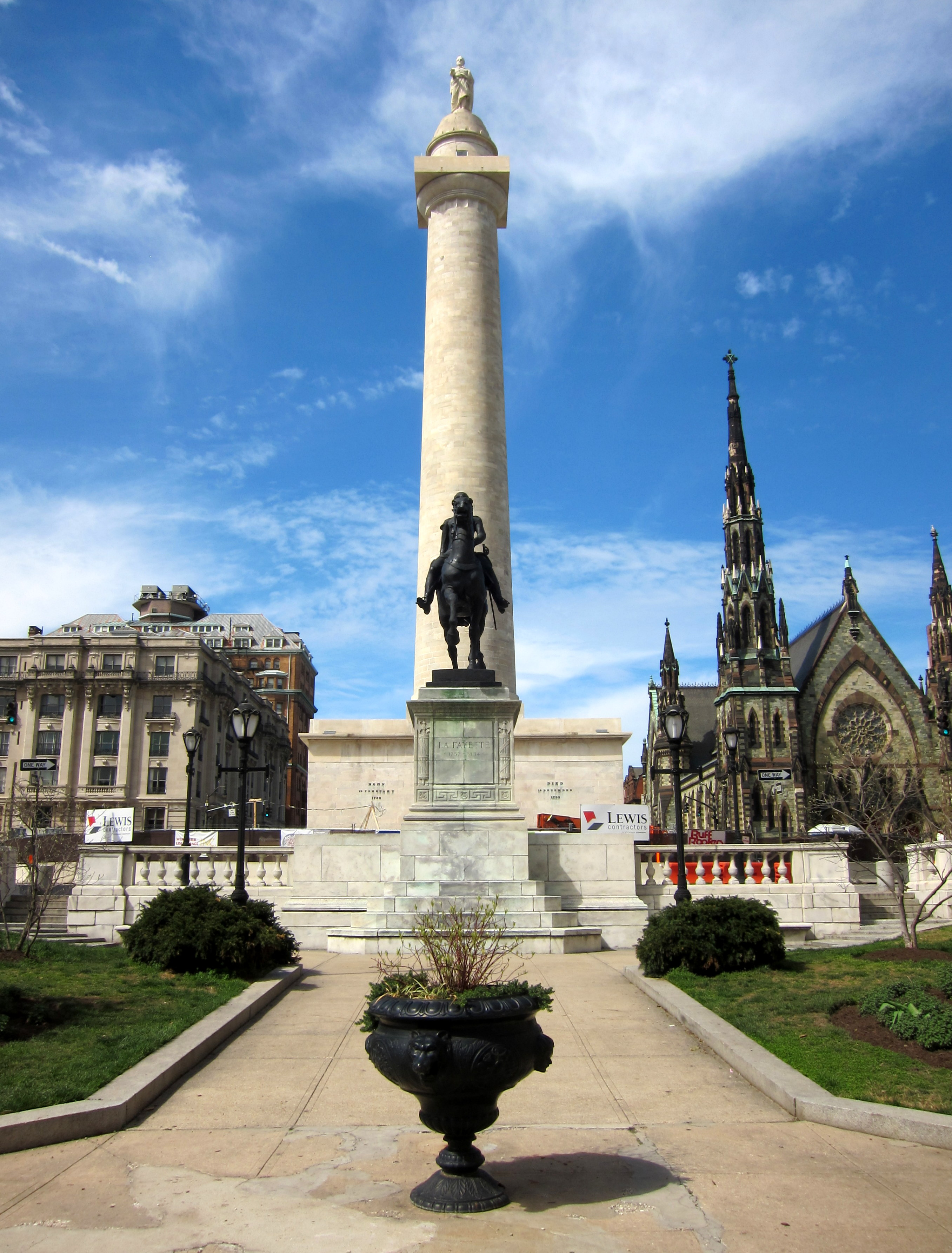 The Lafayette Monument (foreground) and Washington Monument (background) at Mount Vernon Place in Baltimore, Maryland.